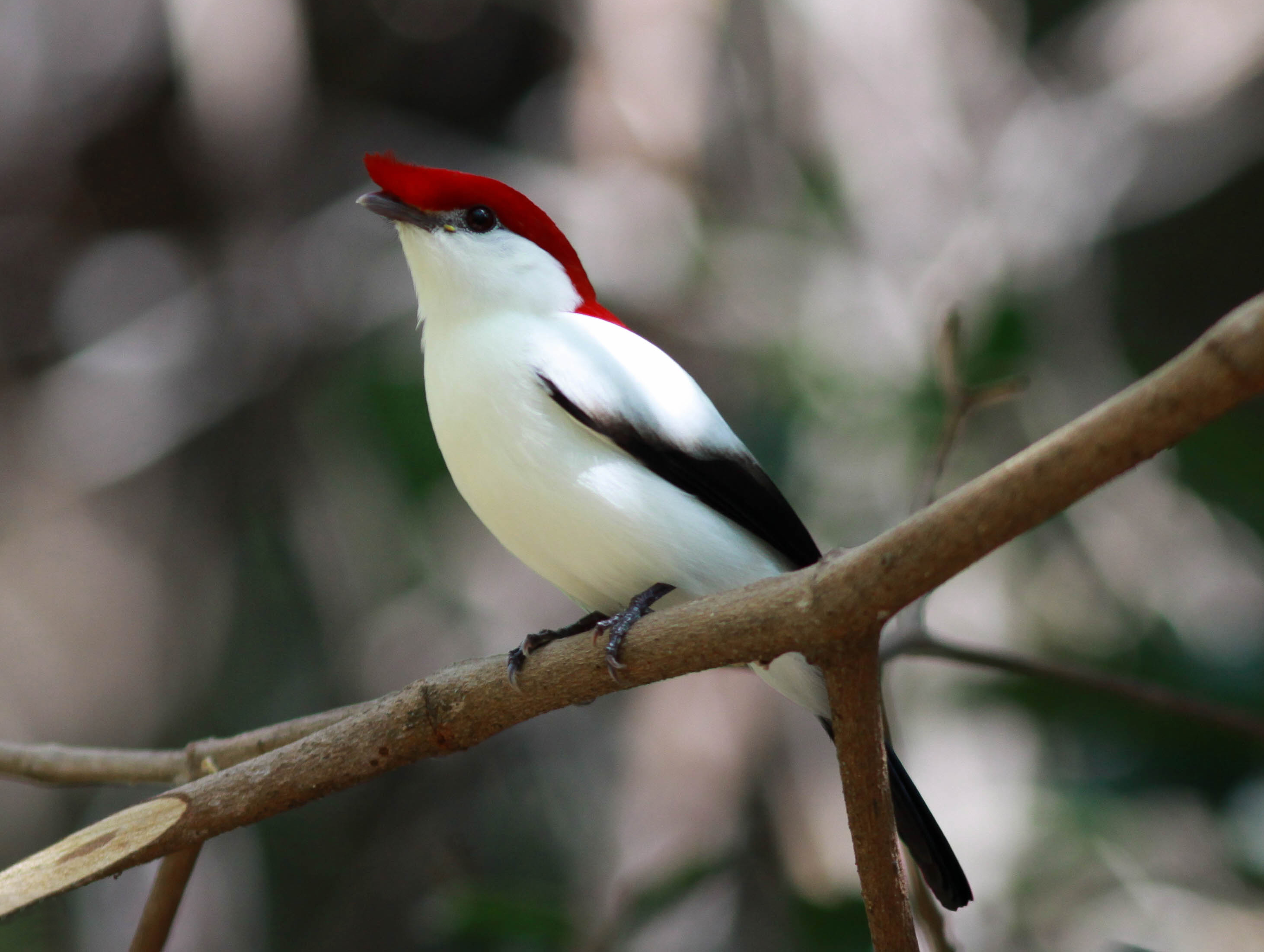 Antilophia bokermanni